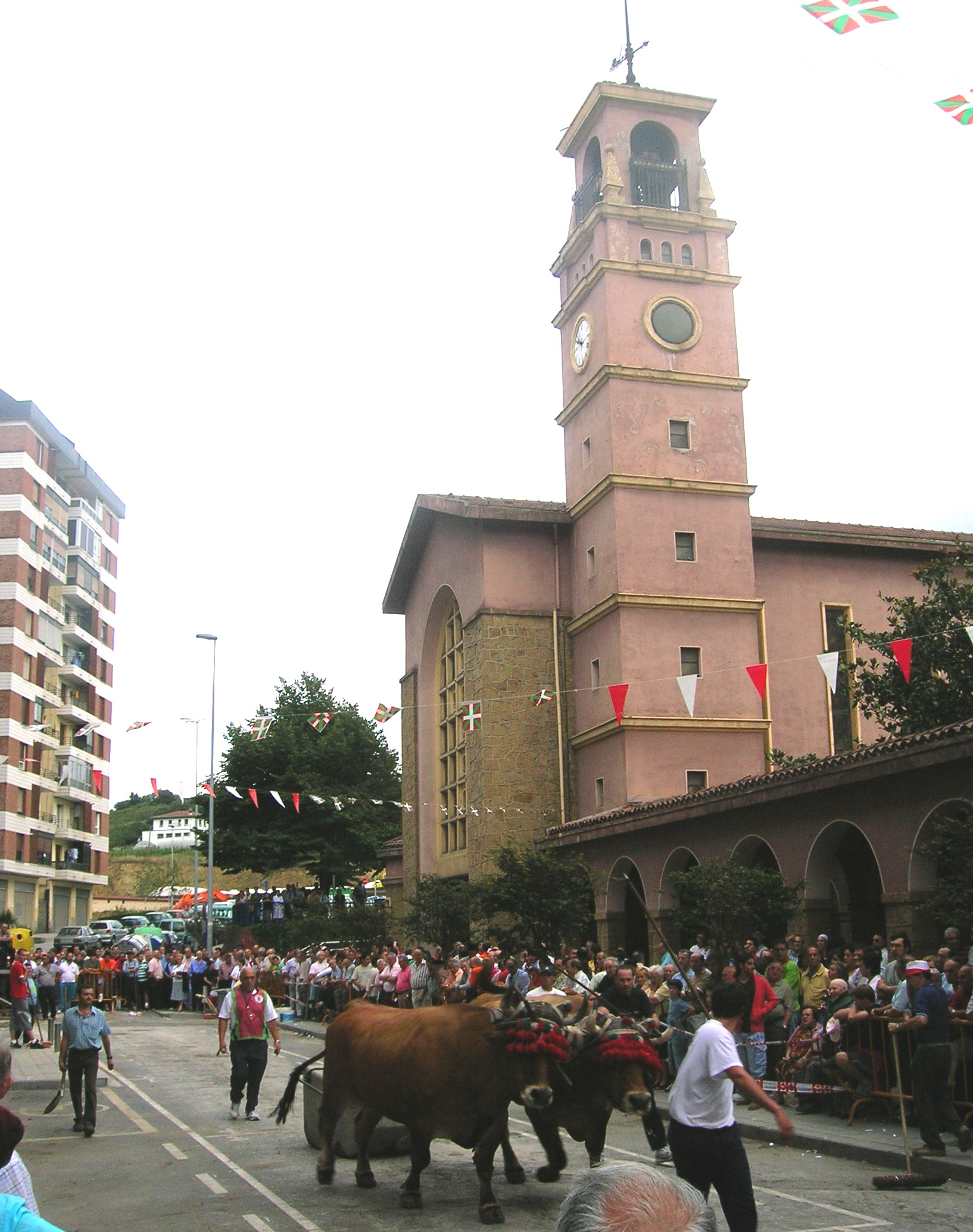 Ox contest (idi probak) as part of Saint Lawrence's fiestas in Astrabudua, Erandio, Spain.